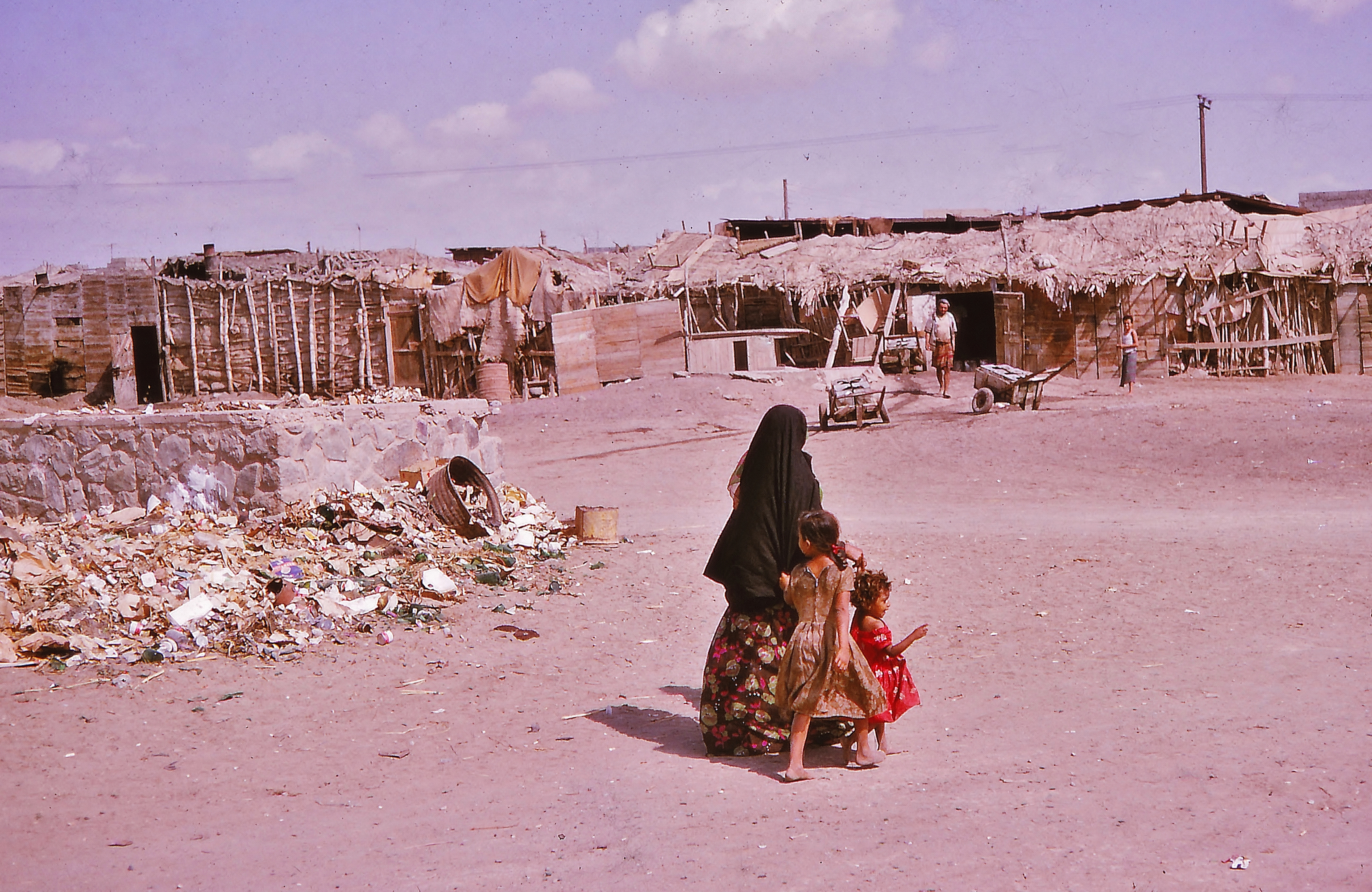 A woman and her children in the " kutcha-hut " area close to Checkpoint Golf. The roofing thatch is almost always made from the fronds and branches of palm trees, supplemented with plastic sheeting.